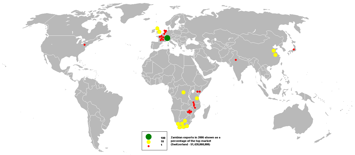 This bubble map shows the global distribution of Zambian exports in 2006 as a percentage of the top market (Switzerland - $1,420,060,000). This map is consistent with incomplete set of data too as long as the top producer is known. It resolves the accessibility issues faced by colour-coded maps that may not be properly rendered in old computer screens. Data was extracted on 30th September 2007 from Based on :Image:BlankMap-World.png